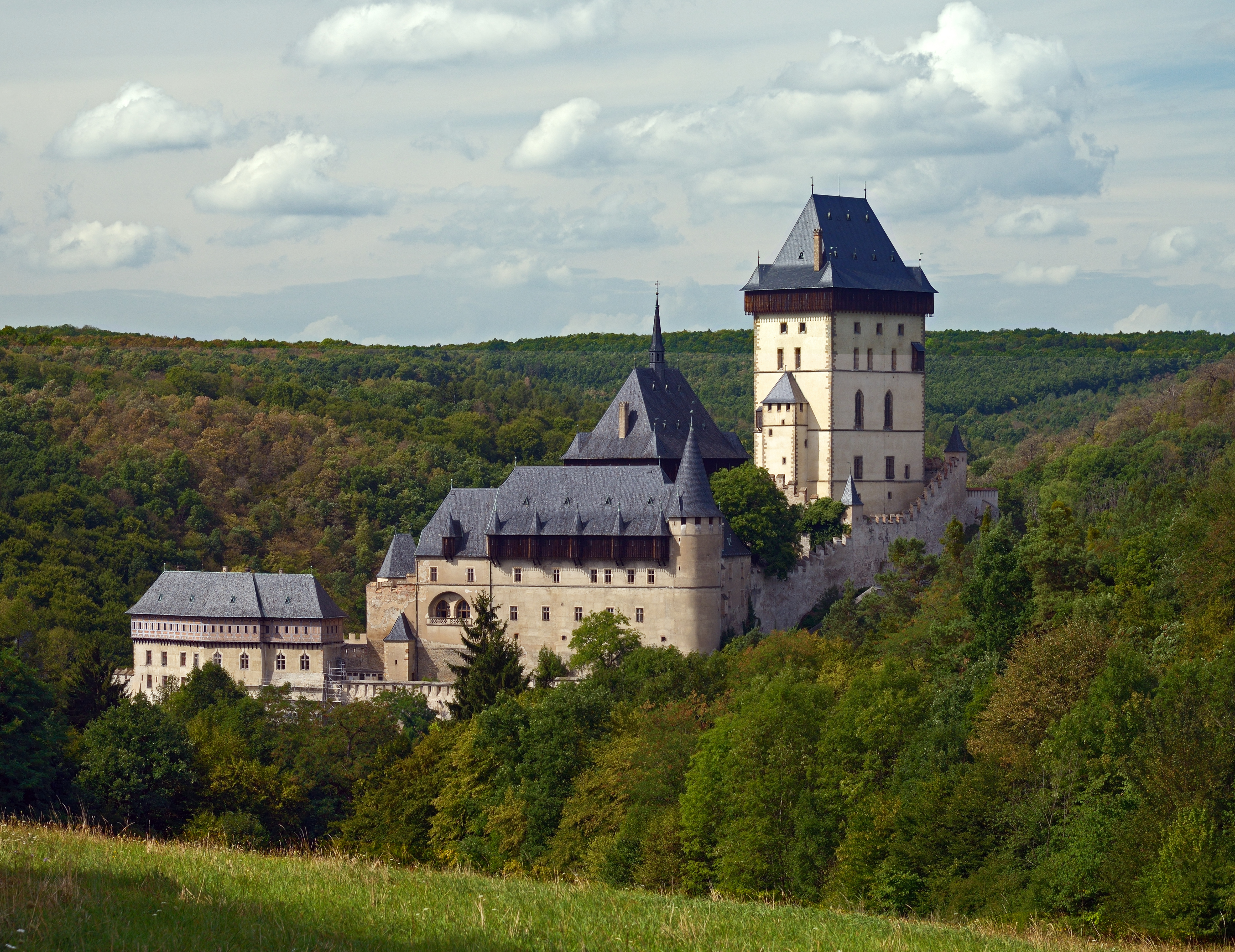 Karlštejn Castle, Czech Republic. 2015